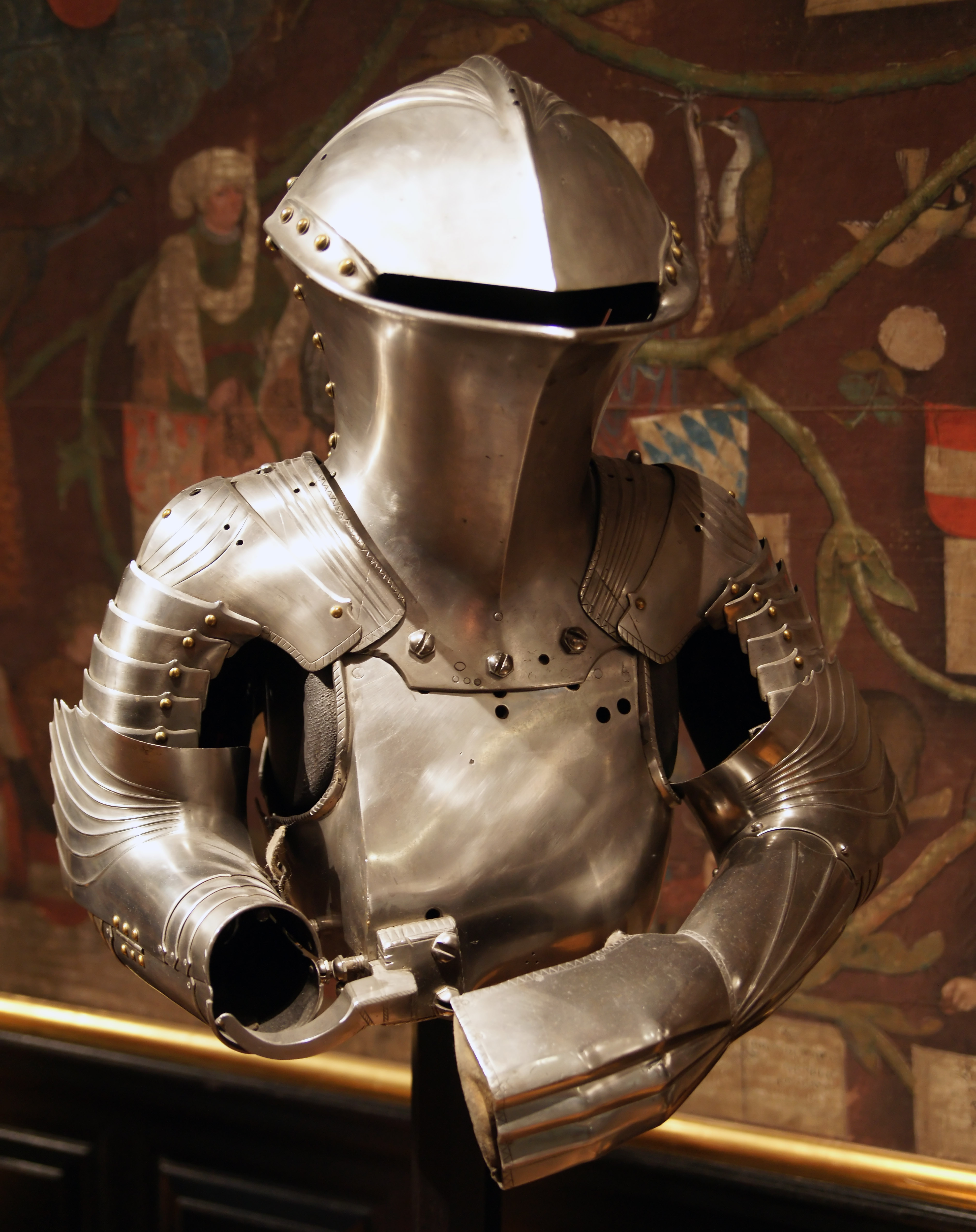 Part of a jousting armour commissioned by Emperor Maximilian I.